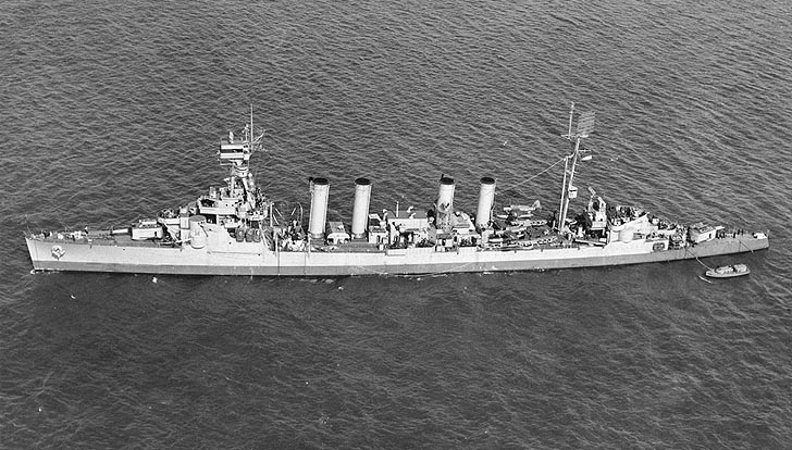 The U.S. Navy light cruiser USS Cincinnati (CL-6) in New York Harbor (USA), on 22 March 1944. Photograph from the Bureau of Ships Collection in the U.S. National Archives.